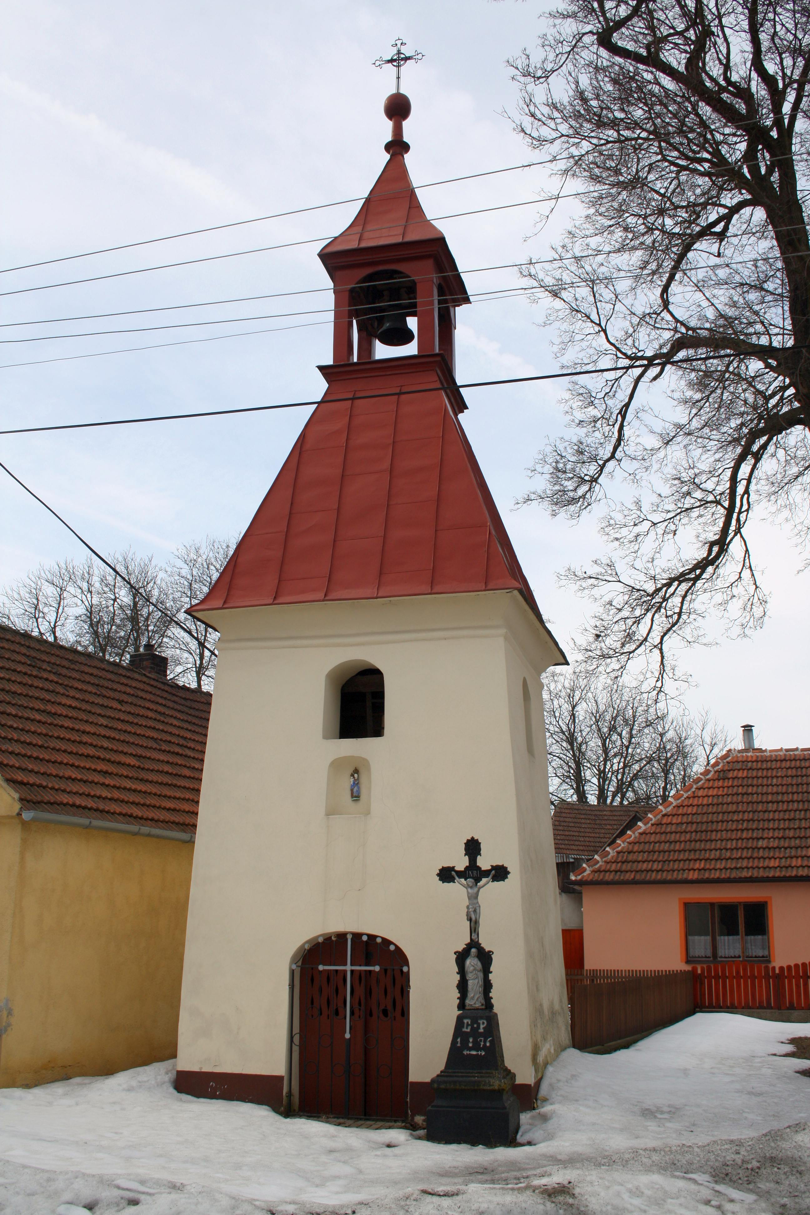 Saint Anne chapel in Bochovice.